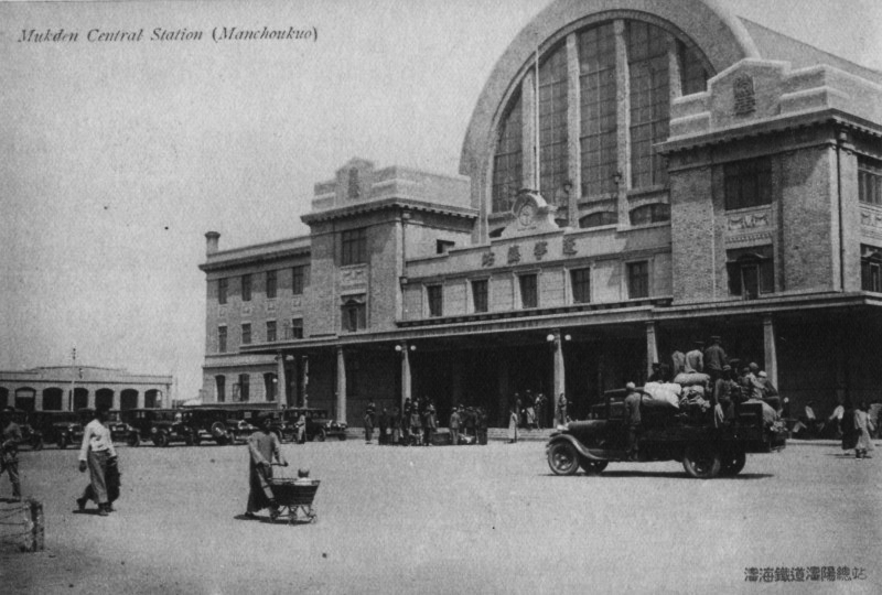 中文（中国大陆）: Liaoning Station before 1949